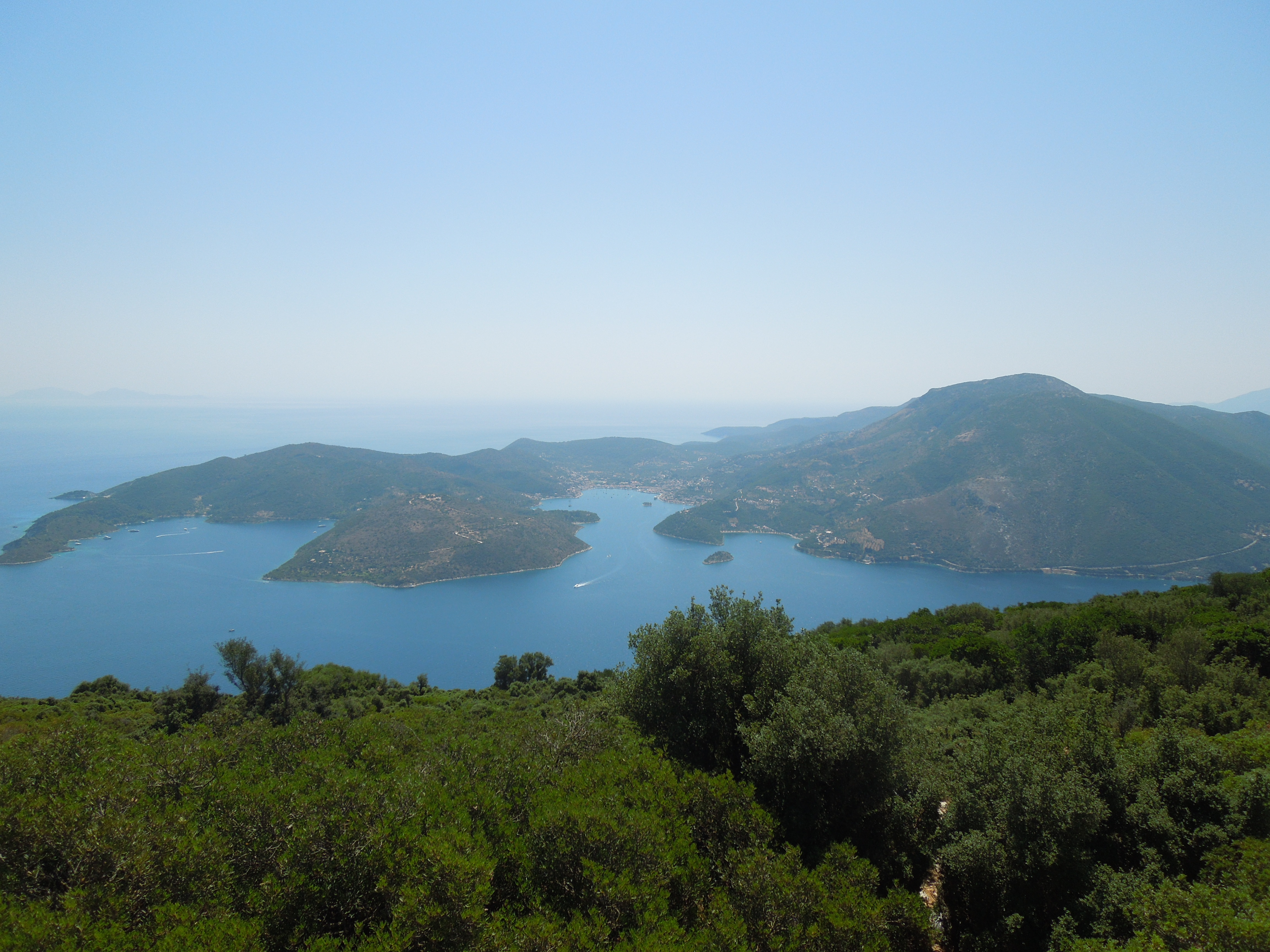 View from the Kathara monastery over the Molos Gulf toward the Bay of Vahty and the town of Vahty